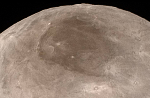 Mordor Macula is the dark area on Charon